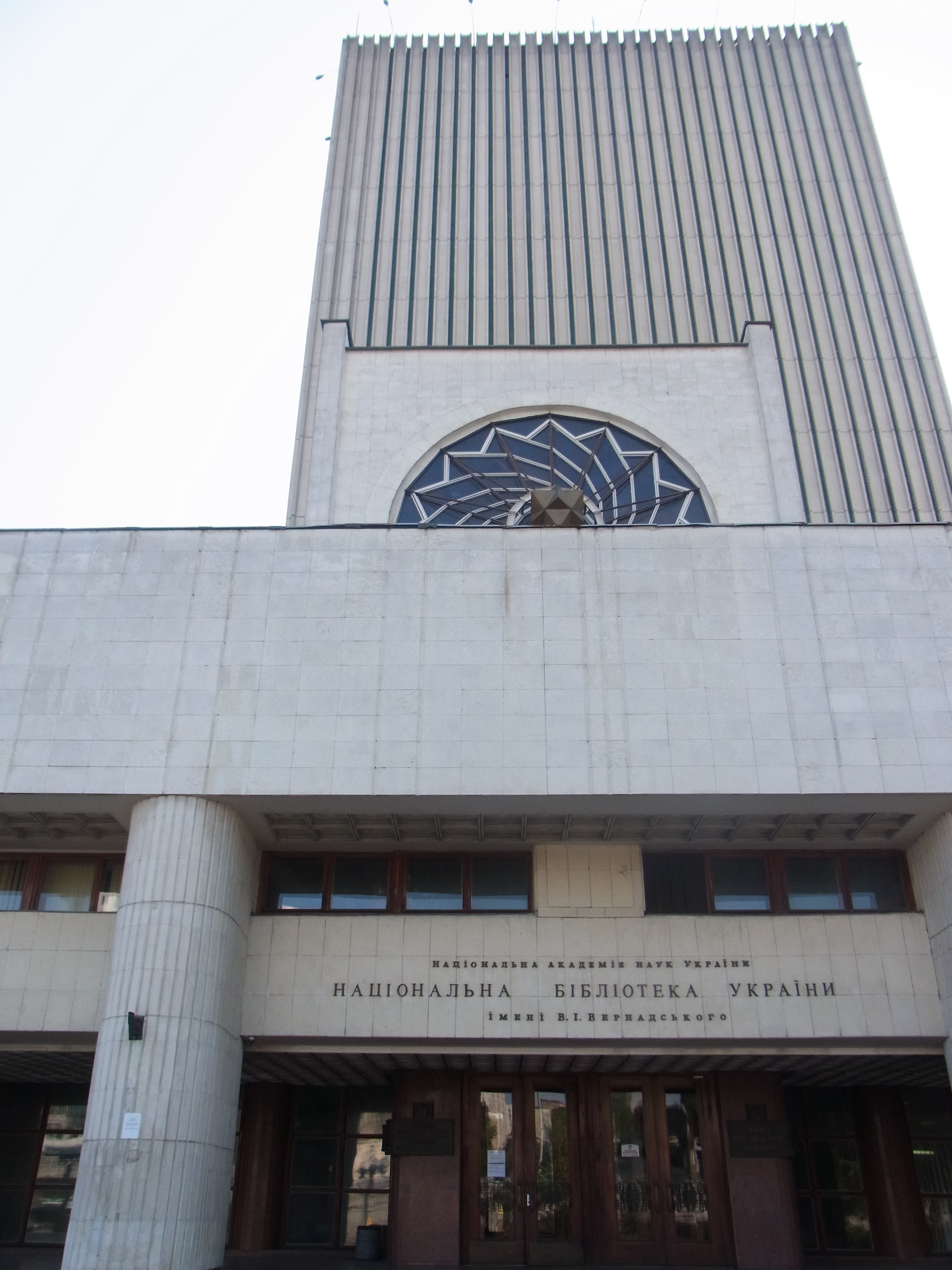 Vernadsky National Library of Ukraine, Kiev.